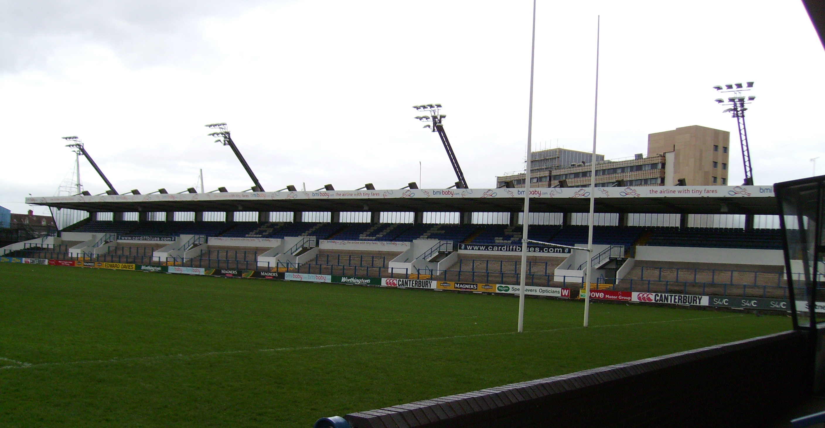 Cardiff Arms Park (North Stand), Cardiff, Wales